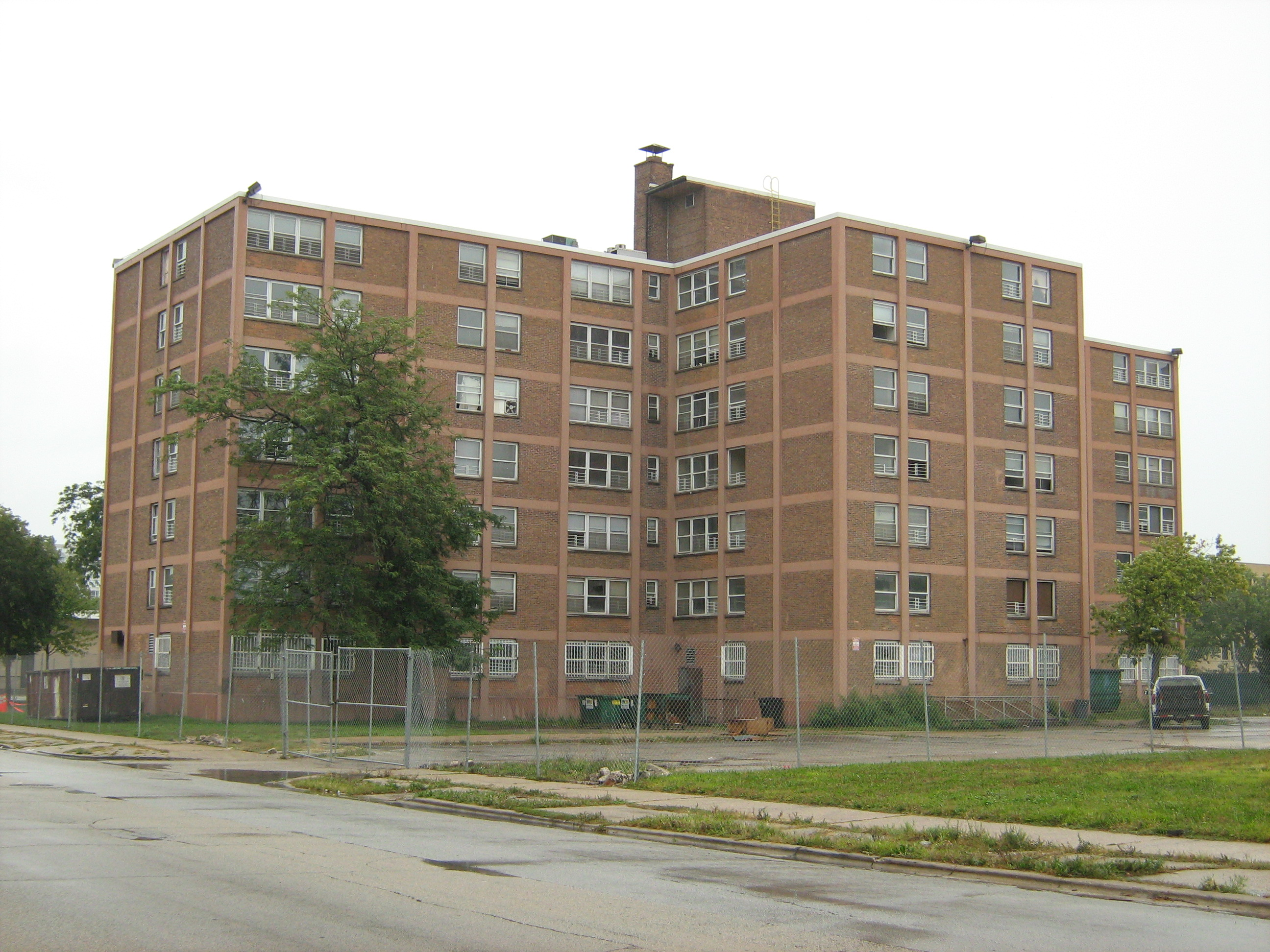 511 E Browning Ave, Chicago, IL 60653